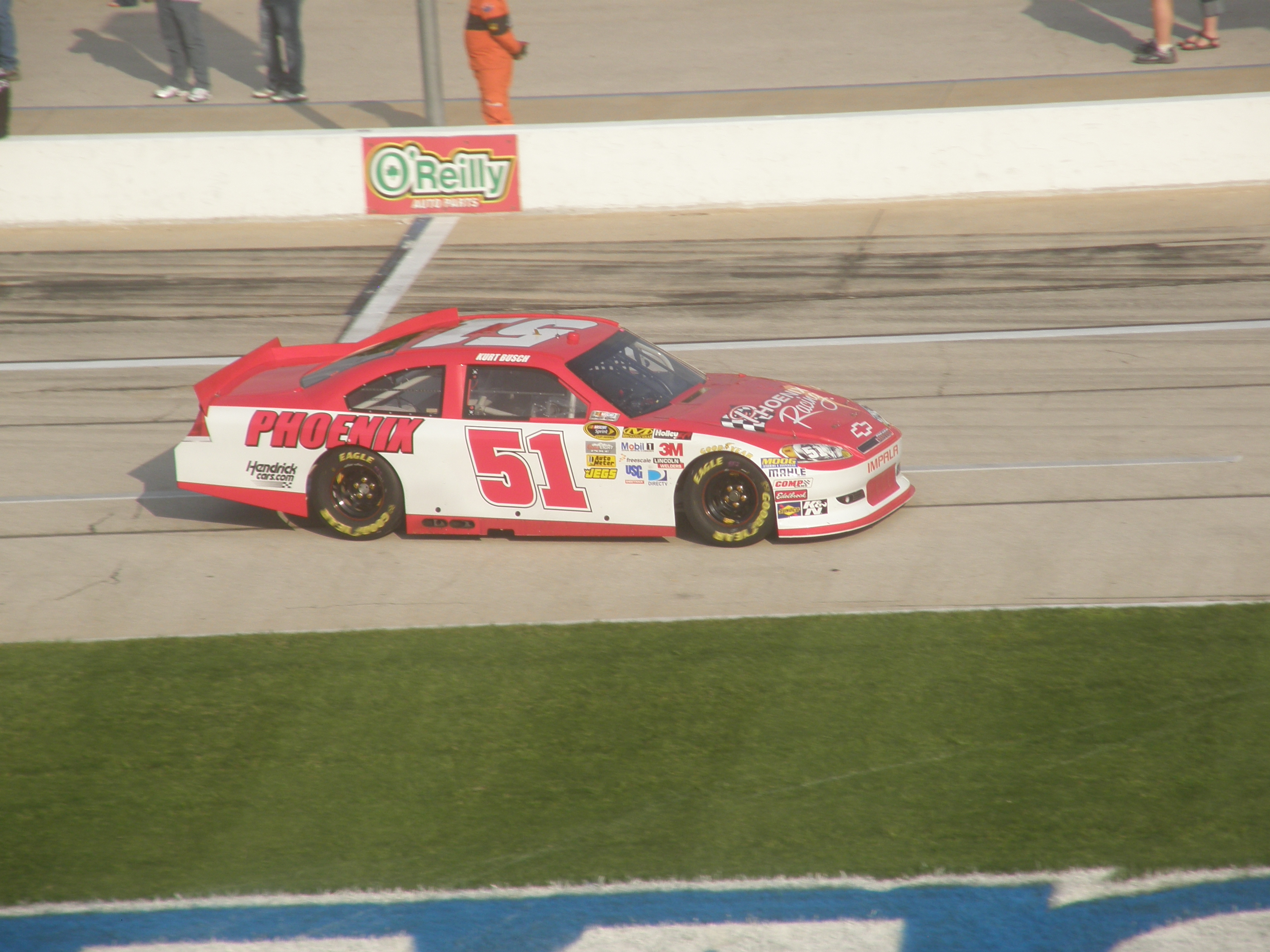 Kurt Busch drives the No. 51 Chevrolet on pit road during practice for the 2012 Samsung Mobile 500 at Texas Motor Speedway.